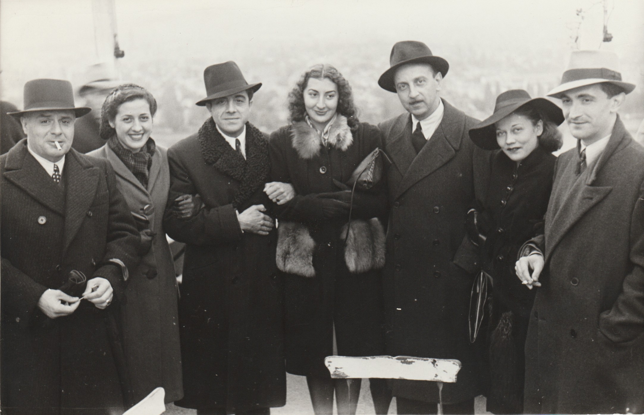 Lia Dell'Ara fotografata tra il suo docente Caorsi, il Maestro De Fabritiis, il Maestro Nino Stinco il Maestro Cuccia